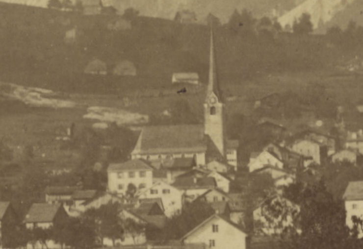 Detail of photo of Linthal showing reformed church